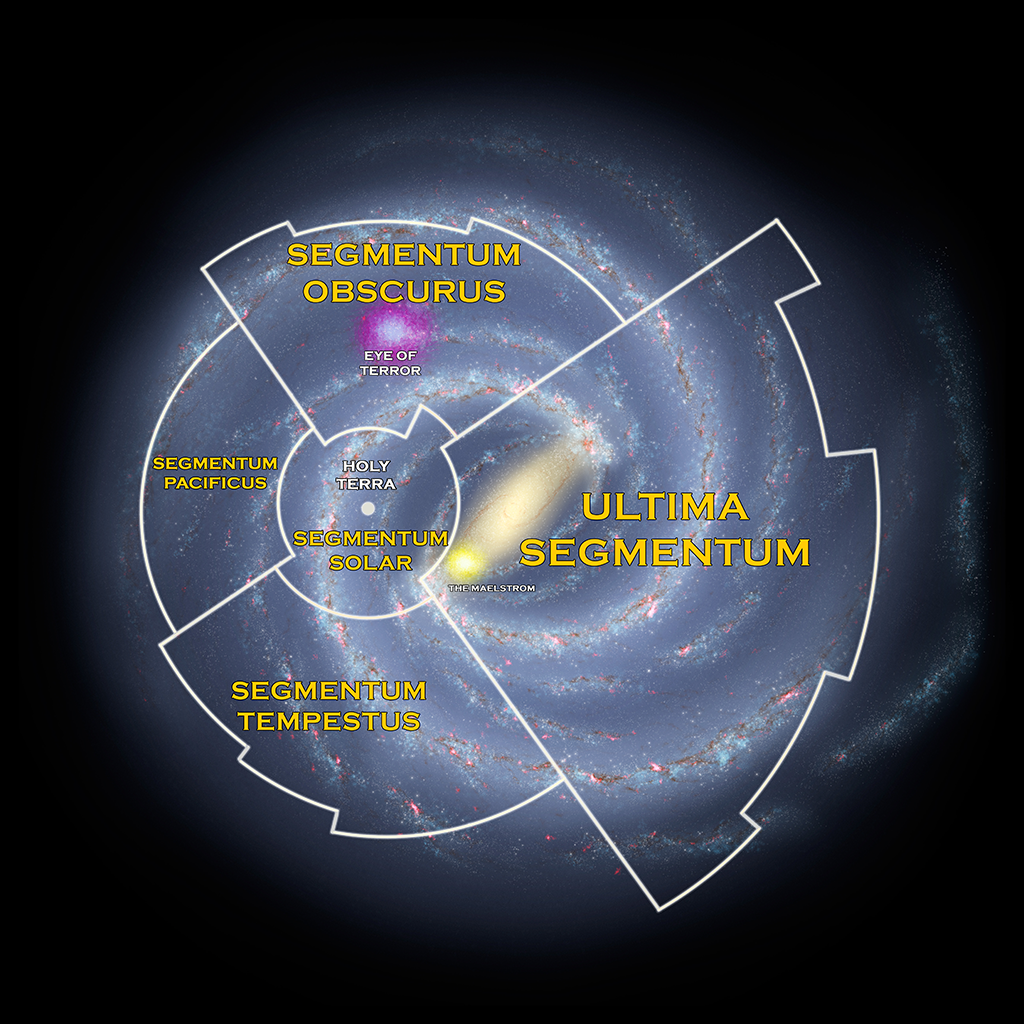 Map of the Imperium (fictional empire in Warhammer 40,000 universe)